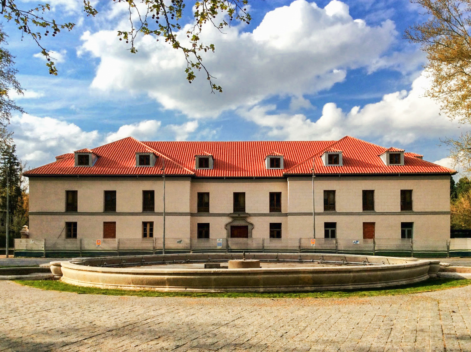 Main facade of Vargas Palace, in Casa de Campo (Madrid, Spain).